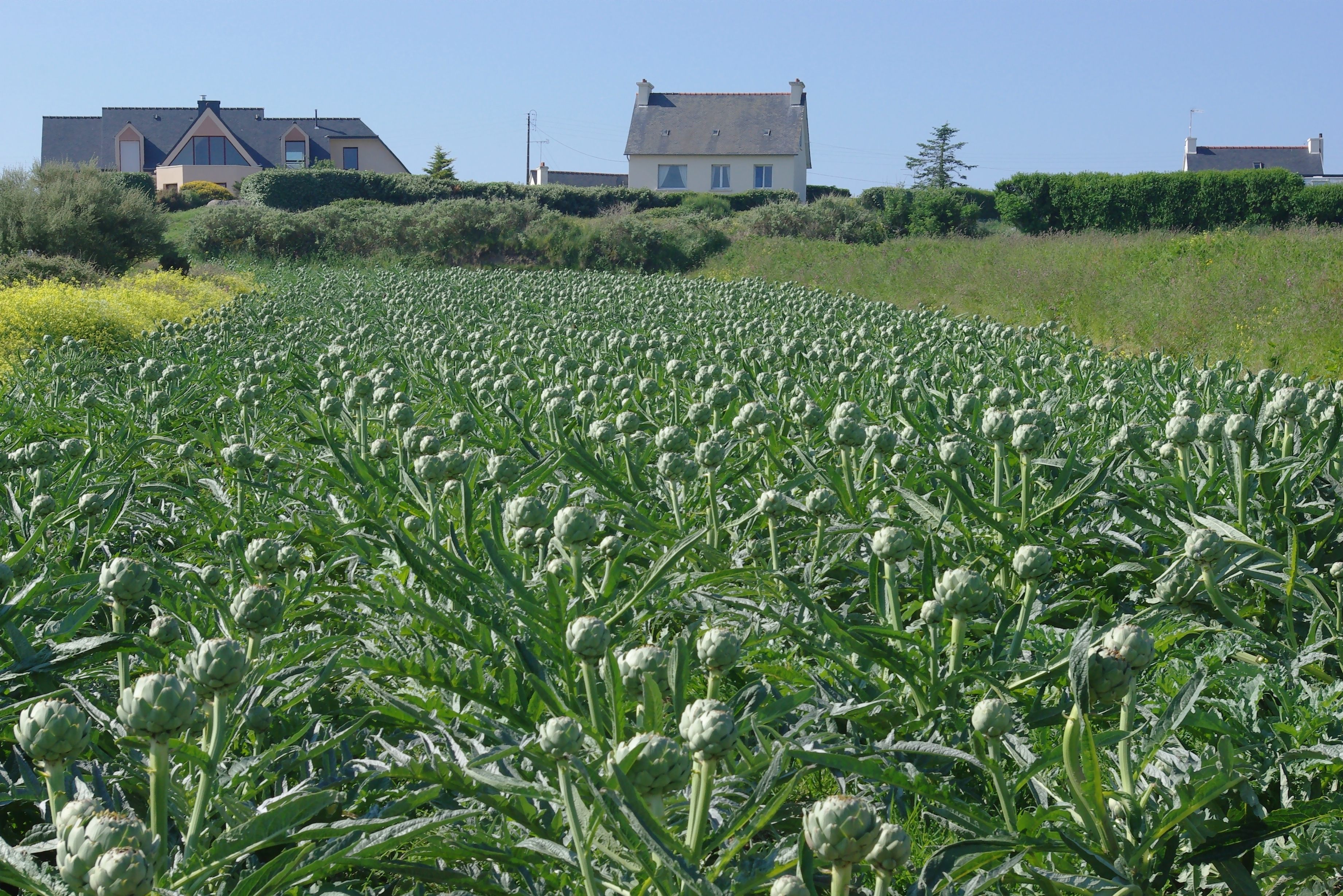 Artichoke field, bay of Pleubian, French Brittany, France.